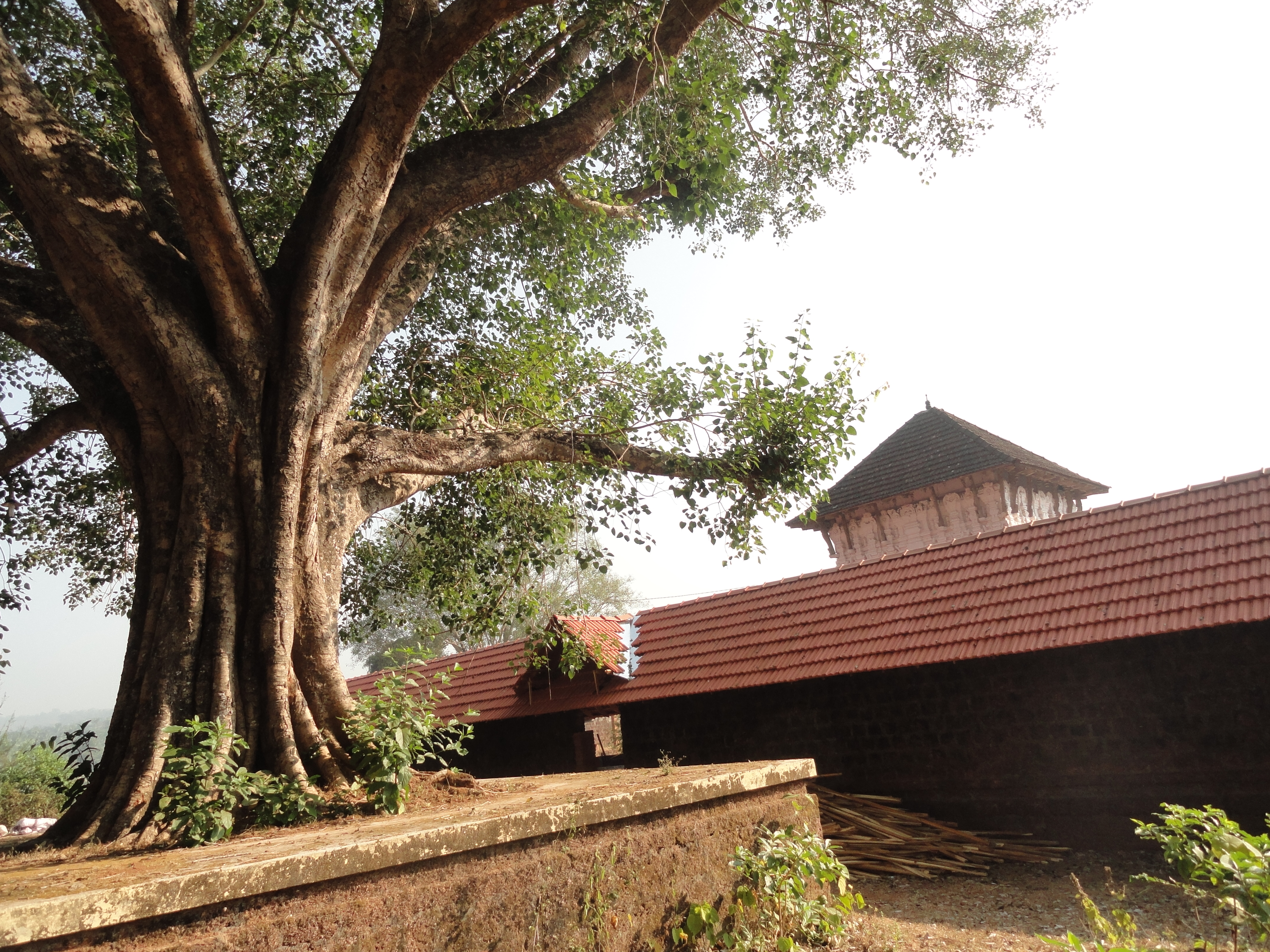 Panniyur Varahamoorthy Temple